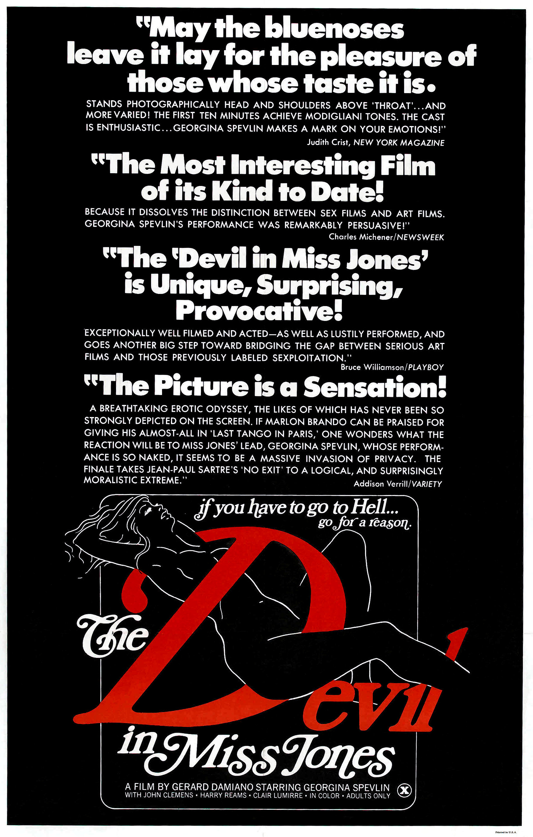 Film poster for the 1973 pornographic film The Devil in Miss Jones